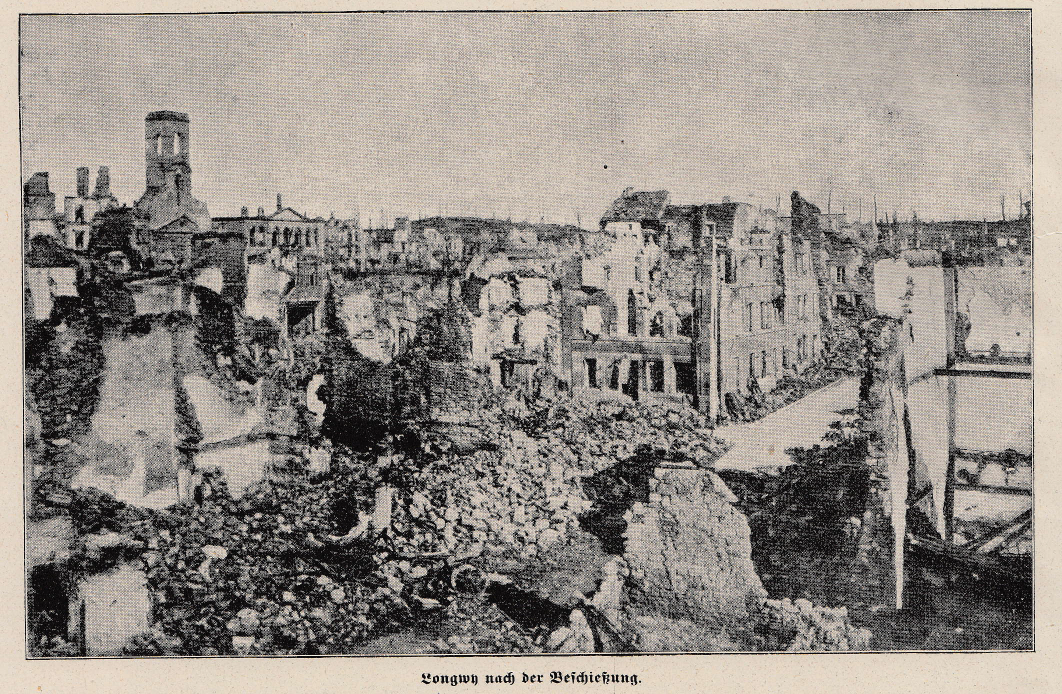 Der Krieg 1914-19 in Wort und Bild, published 1919